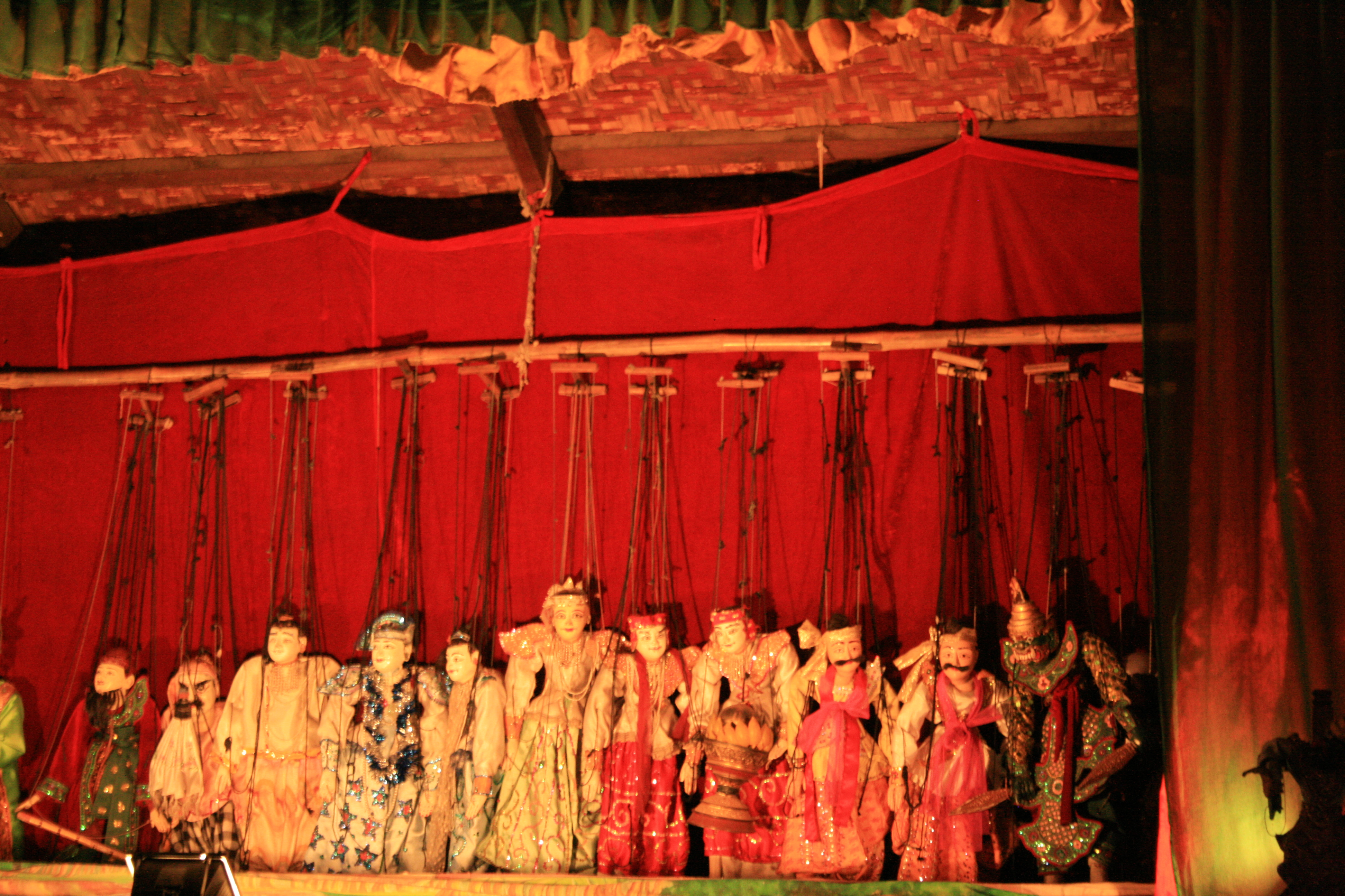 A Yoke thé (Marionette) opera set in a restaurant in Bagan, Myanmar.